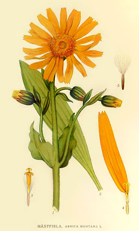 Arnica montana 1. upper part of the plant 2. leaf close to the ground 3. mittblomma (2/1) 4. kantblomma (2/1) 5. flying fruit (2/1)